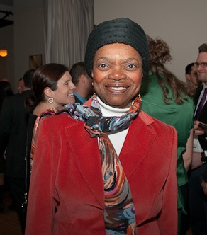 State Senator Velmanette Montgomery in 2010. This file has been extracted from another file: Velmanette Montgomery.jpg